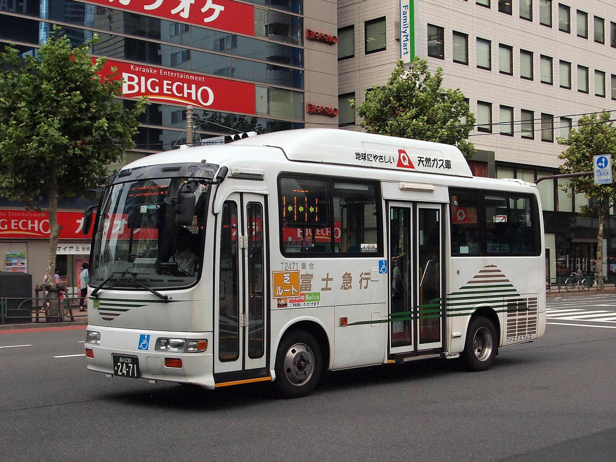 Fleet of Fuji Express, a group of Fuji Kyuko, as 1st group of "Chii Bus". Model: Hino Liesse KK-RX4JFEA Wheelchair lift equipped in center door. CNG vehicle modified: Kyodo Co. License plate: TKS230 A2471 Place: neighbour of Shinbashi Station, Minato Ward, Tokyo Japan